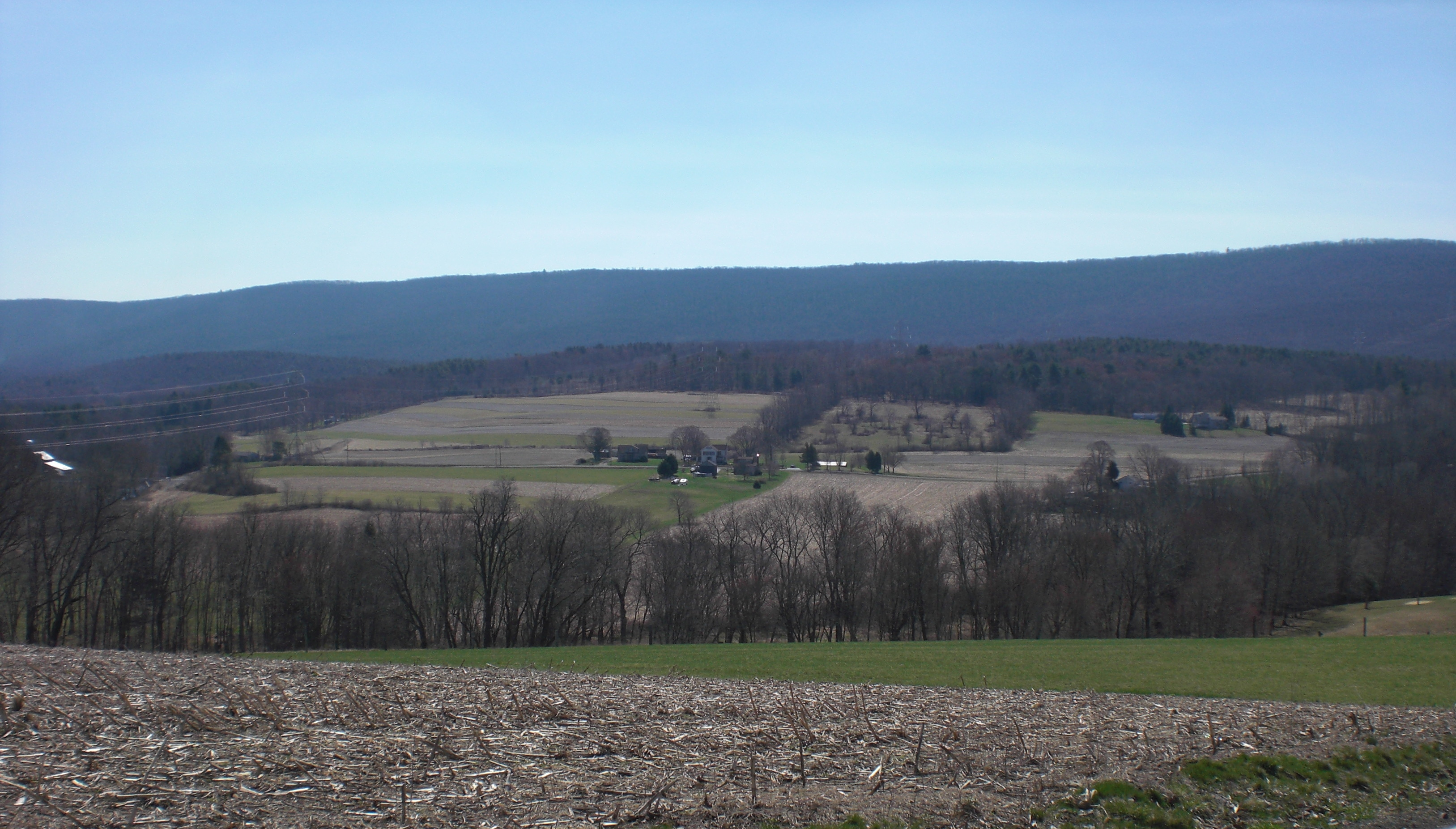 Hollenback Township from State Route 3013